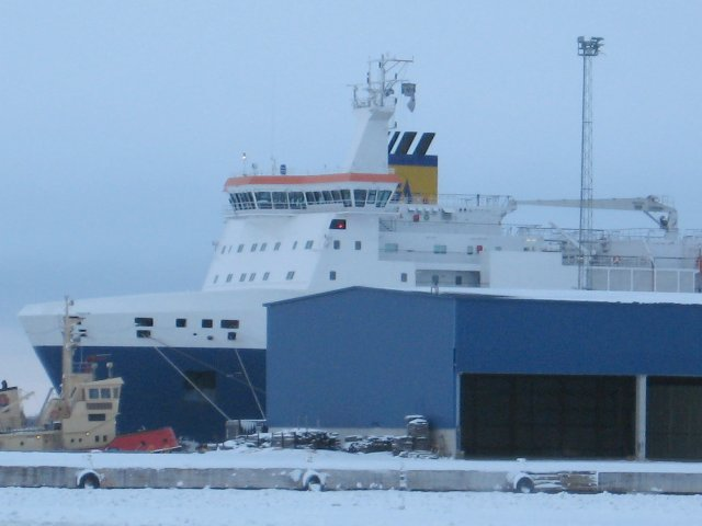 Swedish cargo ship M/S TransPaper in Kemi, Finland.